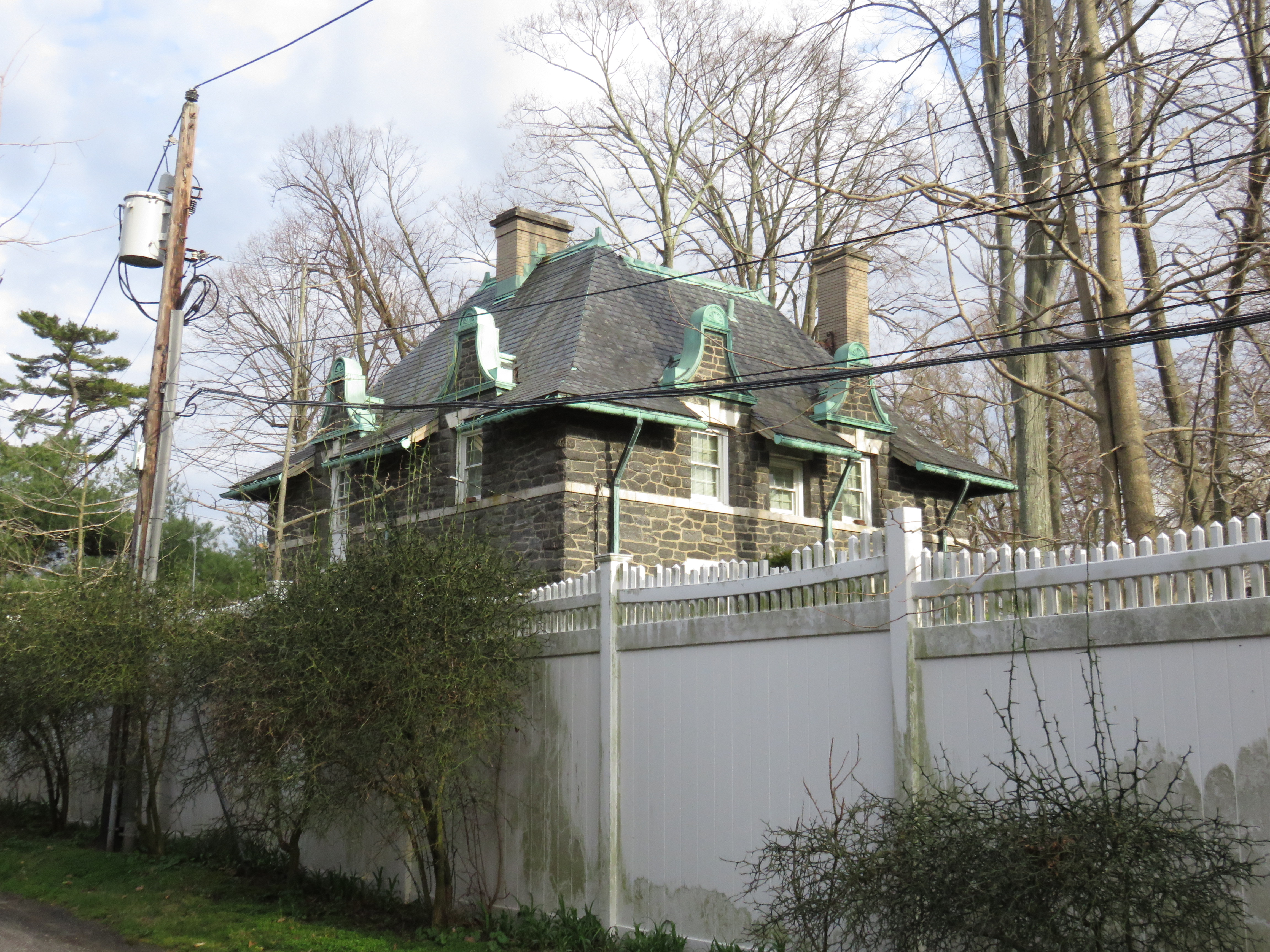 in Roslyn Harbor, New York in 2016